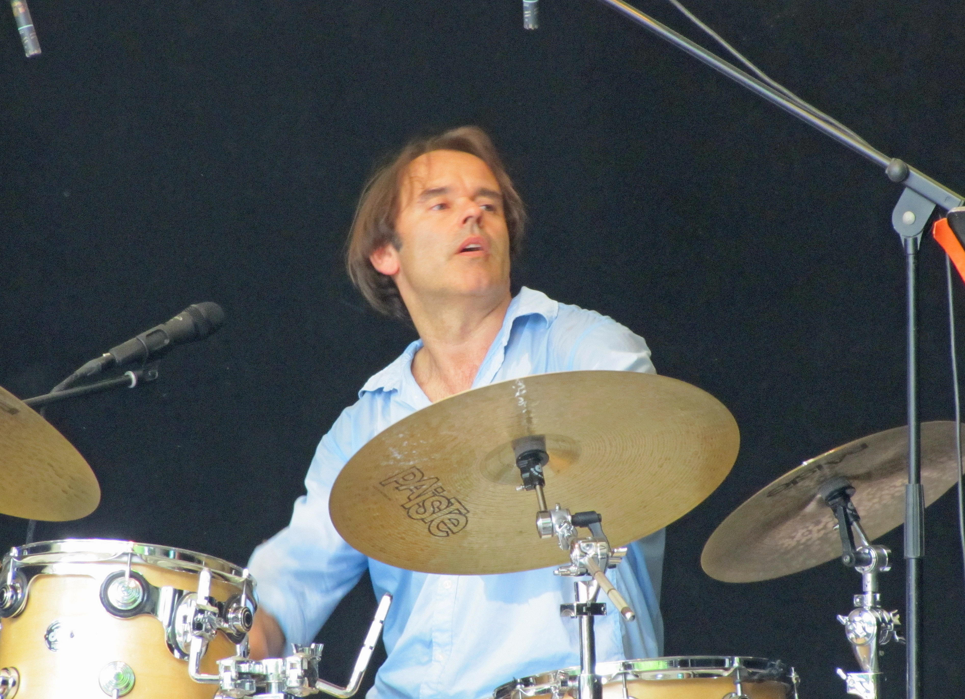 Patrice Heral (with Christof Lauer and Michel Godard), 2010 in Frankfurt am Main, at garden of "Liebieghaus" (museum), Germany.